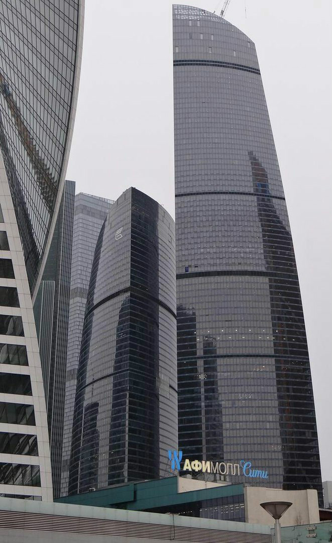 Federation Tower in Moscow